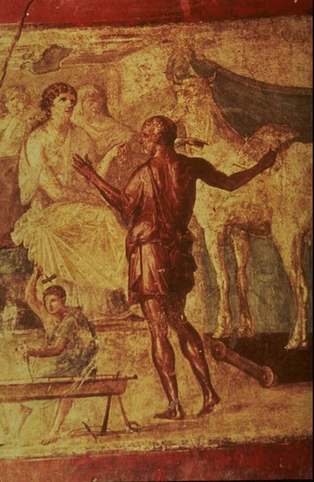 Daedalus, Pasiphae and wooden cow. Pompeian wall painting (House of the Vettii), 1st cent. A.D.